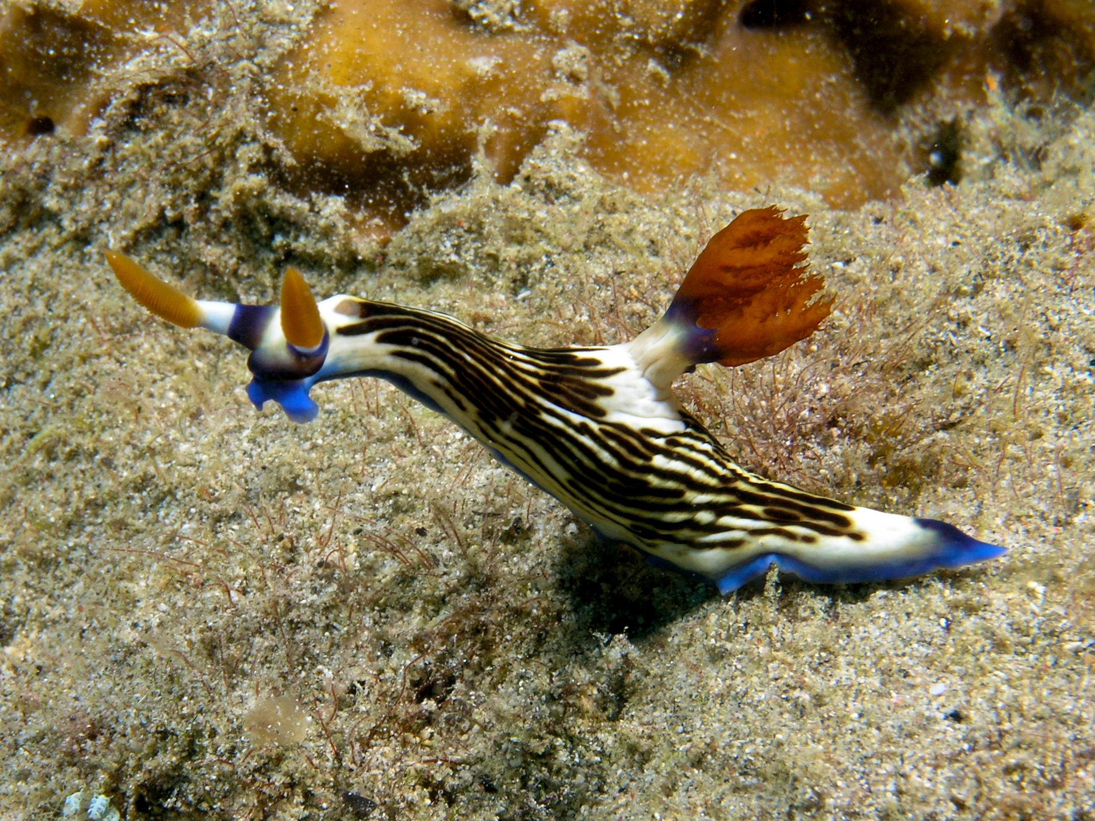 Nembrotha lineolata (Nudibranch)